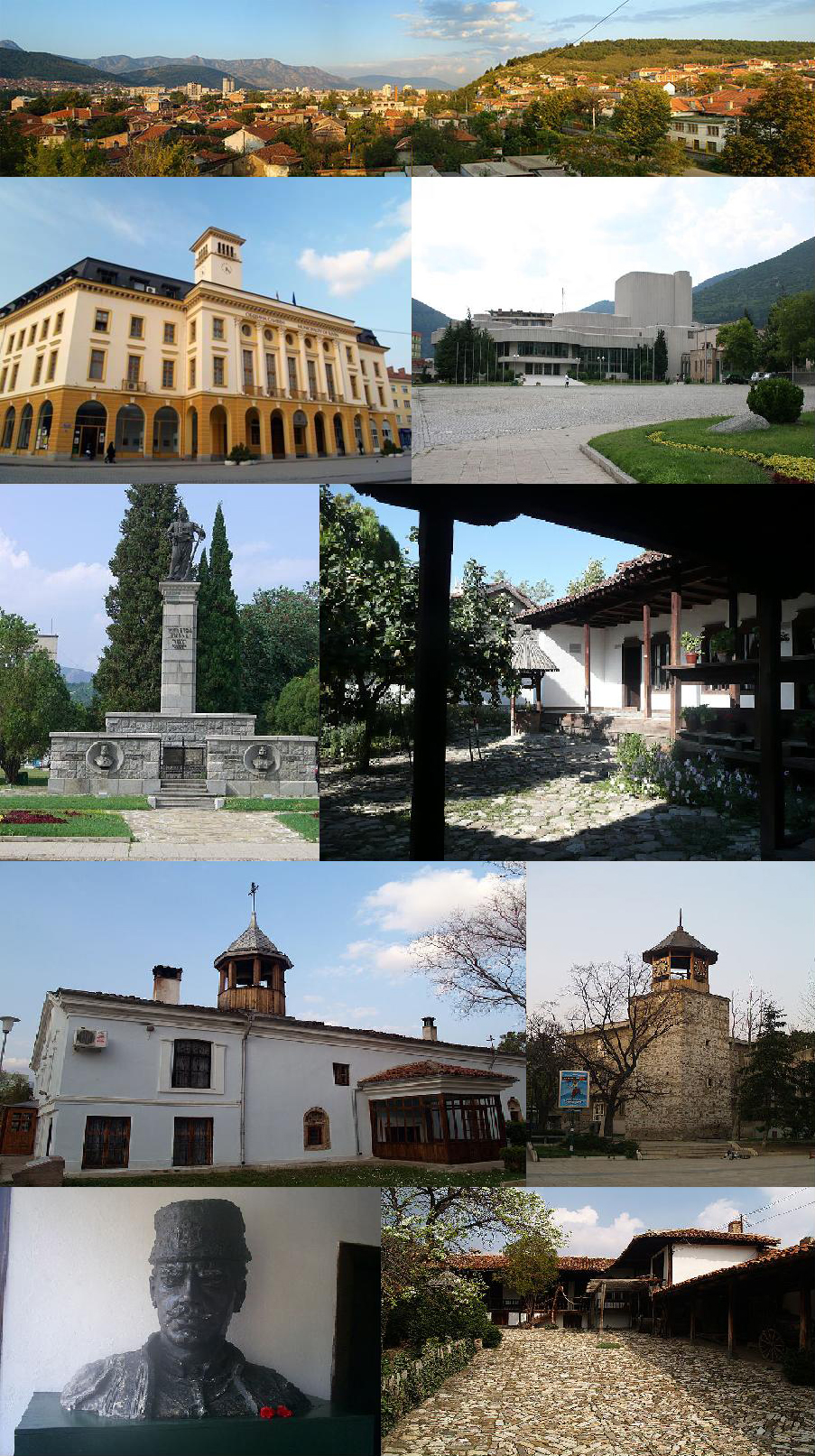 Collage of the landmarks of Sliven, Bulgaria